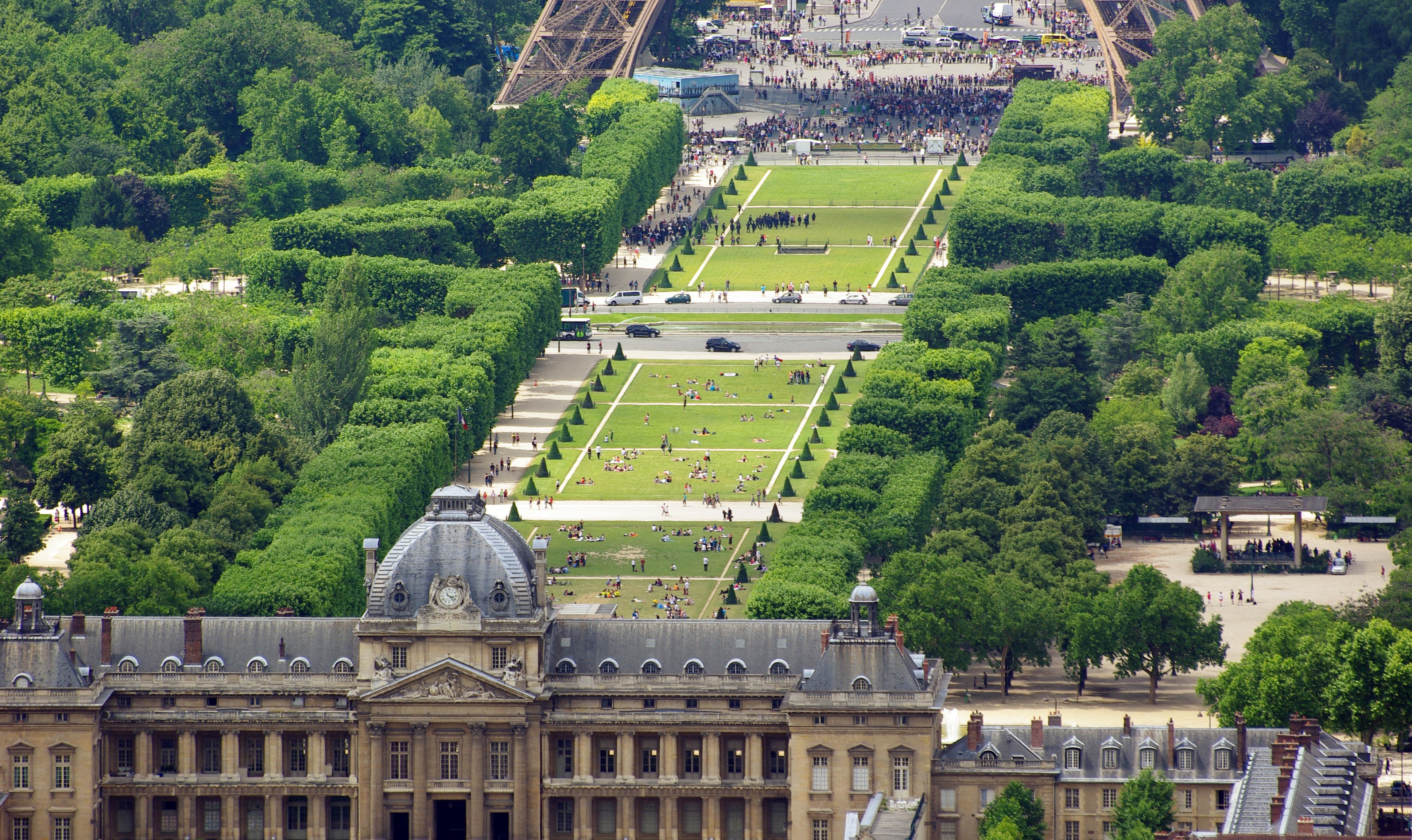 Le champs de Mars as seen from the Montparnasse tower.